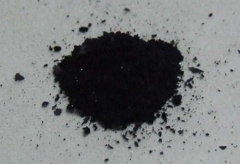 Pentacene crystals